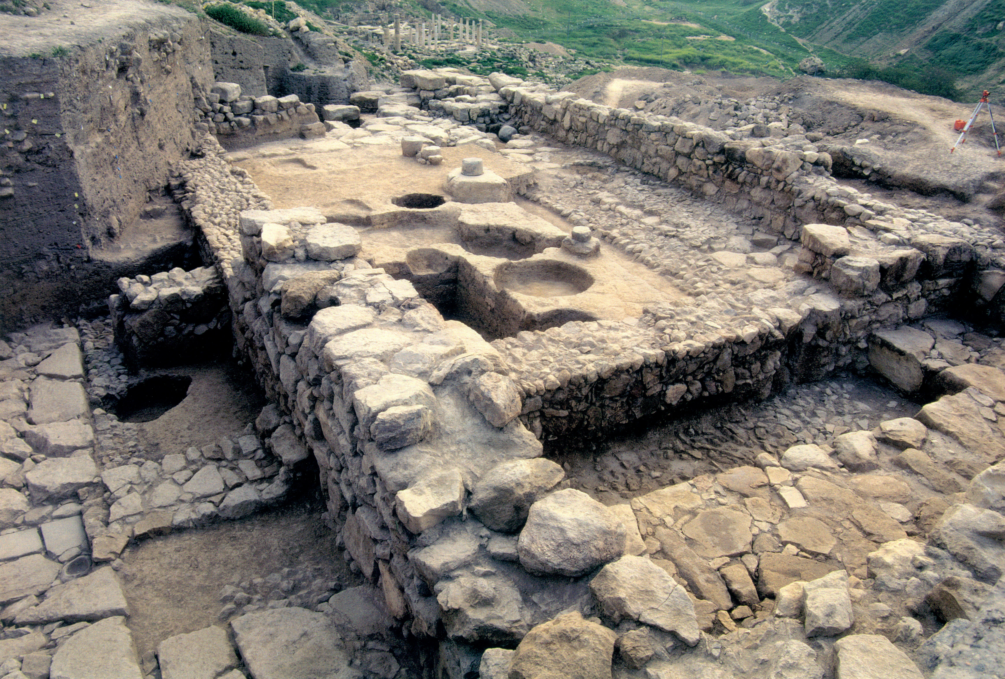 Photo of the Migdol Temple at Pella in Jordan taken in 2001. View east. This photograph shows the three major building phases of the temple that stretch from its construction in the Middle Bronze Age (1650 BC) to its destruction in the Iron Age (850 BC).